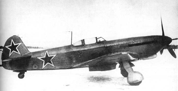 A Yak-9T, modified to use the NS-45 cannon. This aircraft was used for trial purposes before the Yak-9K was put in limited production.